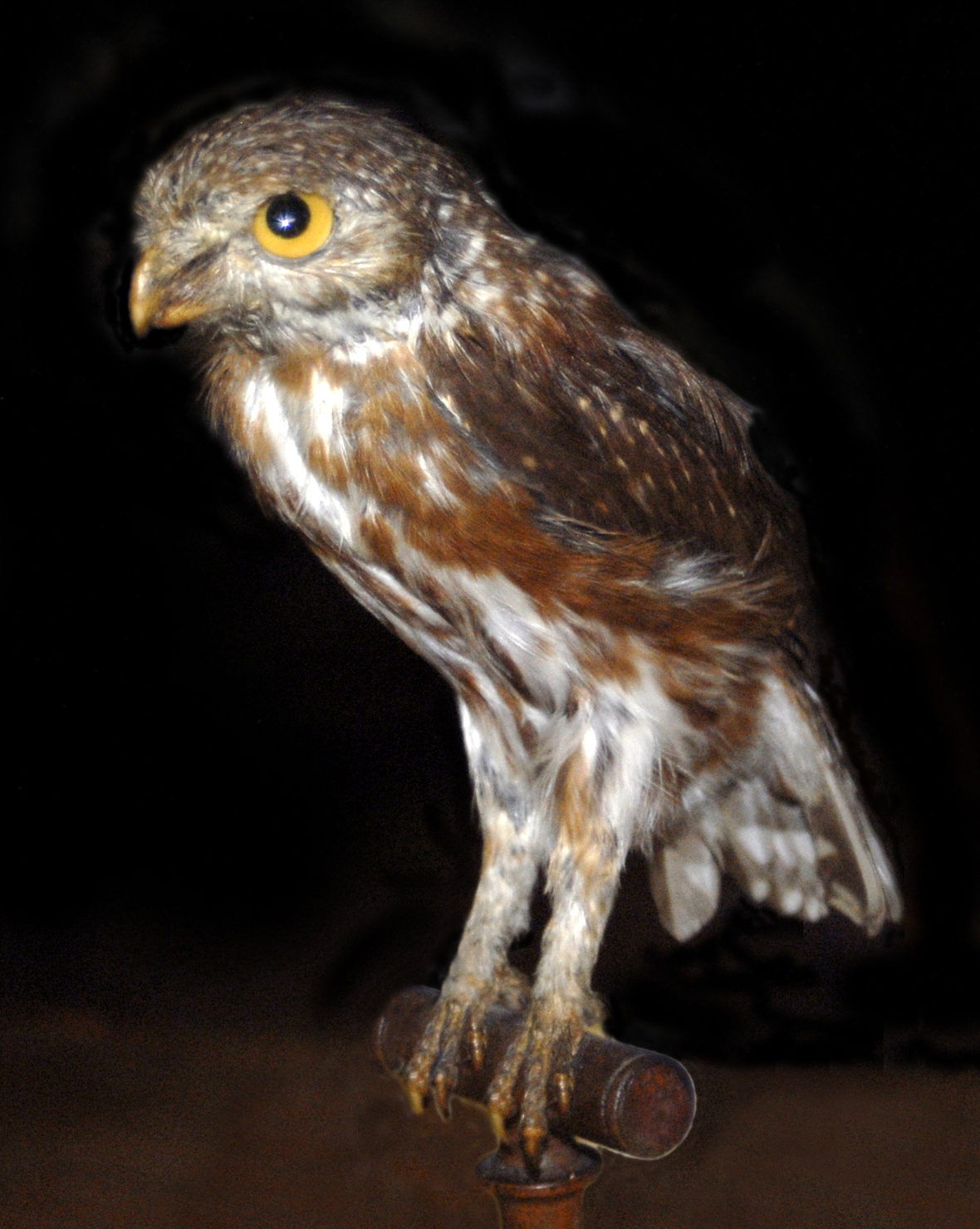 Glaucidium minutissimum. On display at the University History Museum, University of Pavia